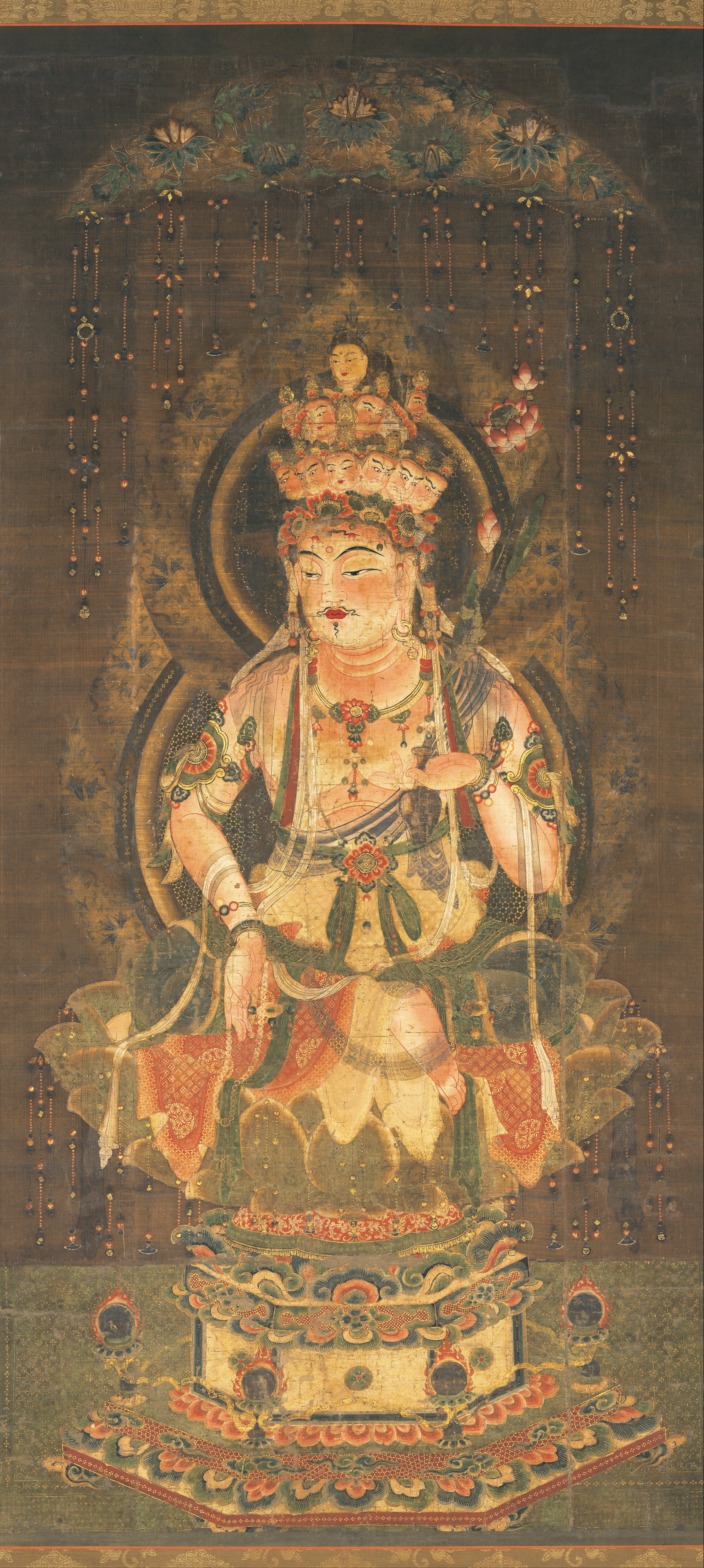 Eleven-faced Goddess of Mercy (絹本著色十一面観音像, kenpon chakushoku jūichimen kannon zō). Hanging scroll. Color on silk. Located in the Nara National Museum, Nara, Japan.